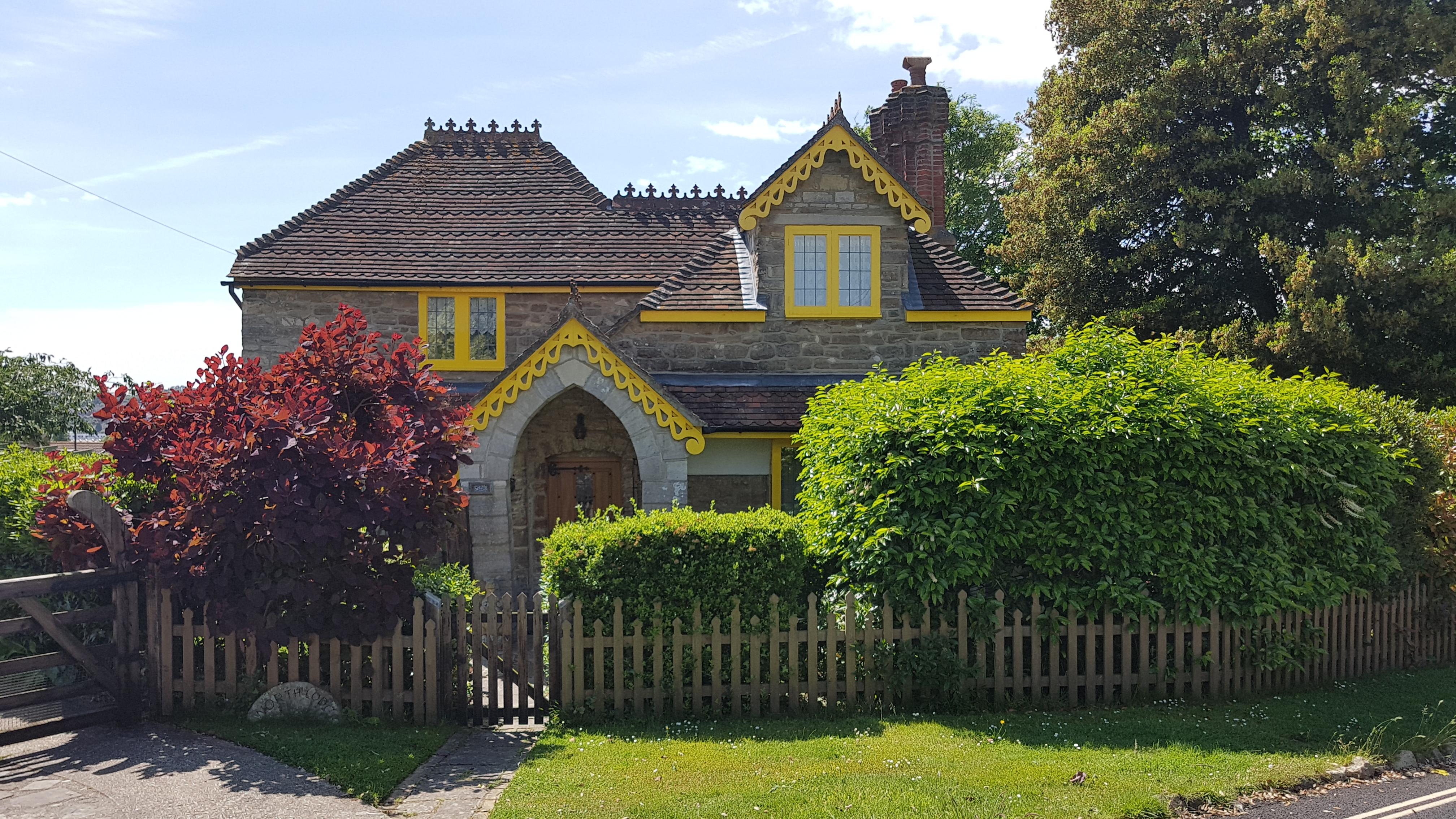 The last remaining building from the original East Cowes Castle.